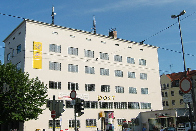 Post office at Tegernseer Landstraße